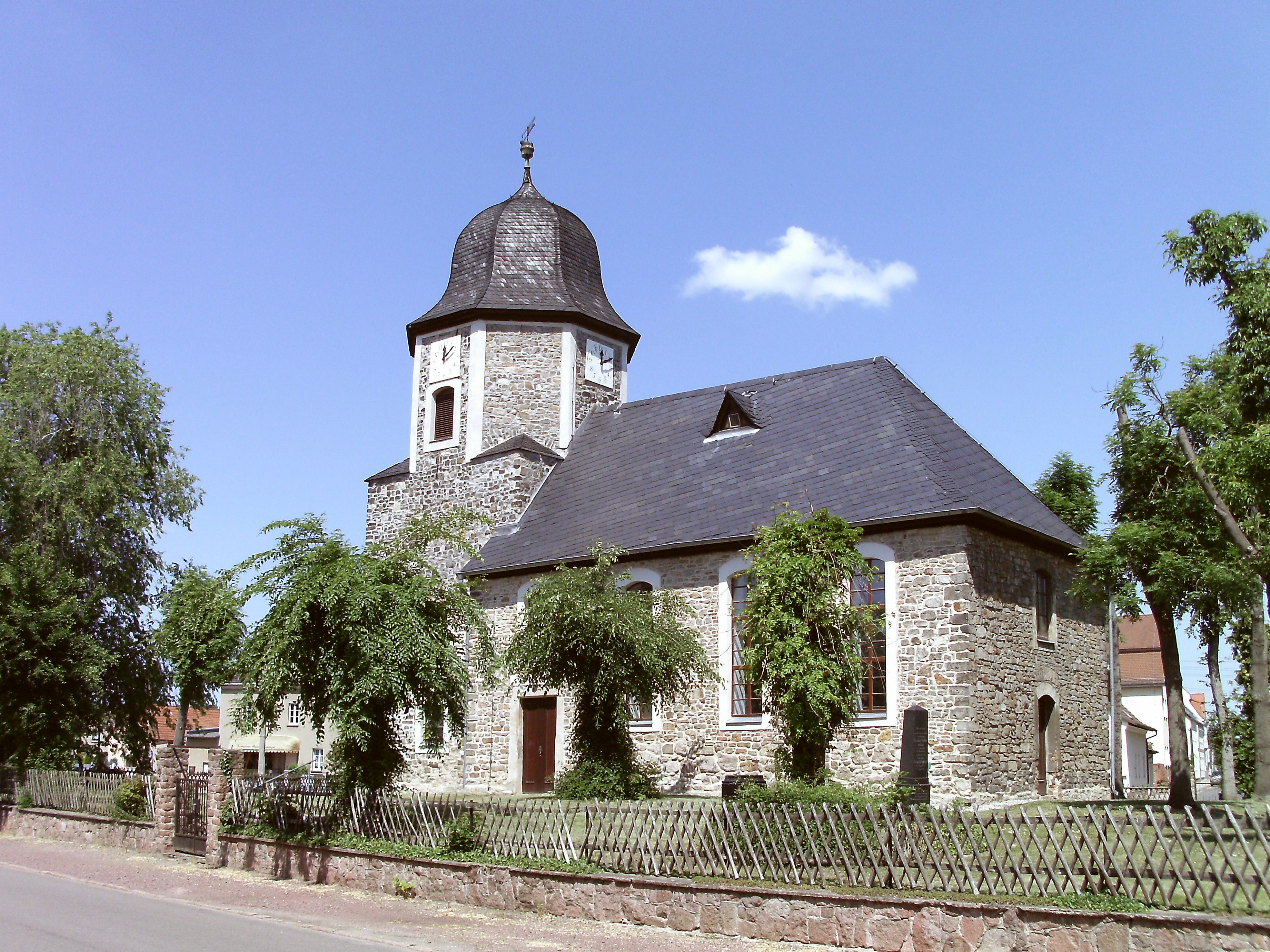 St. Stephen's Church in Kanena (Halle/Saale) from the south-east